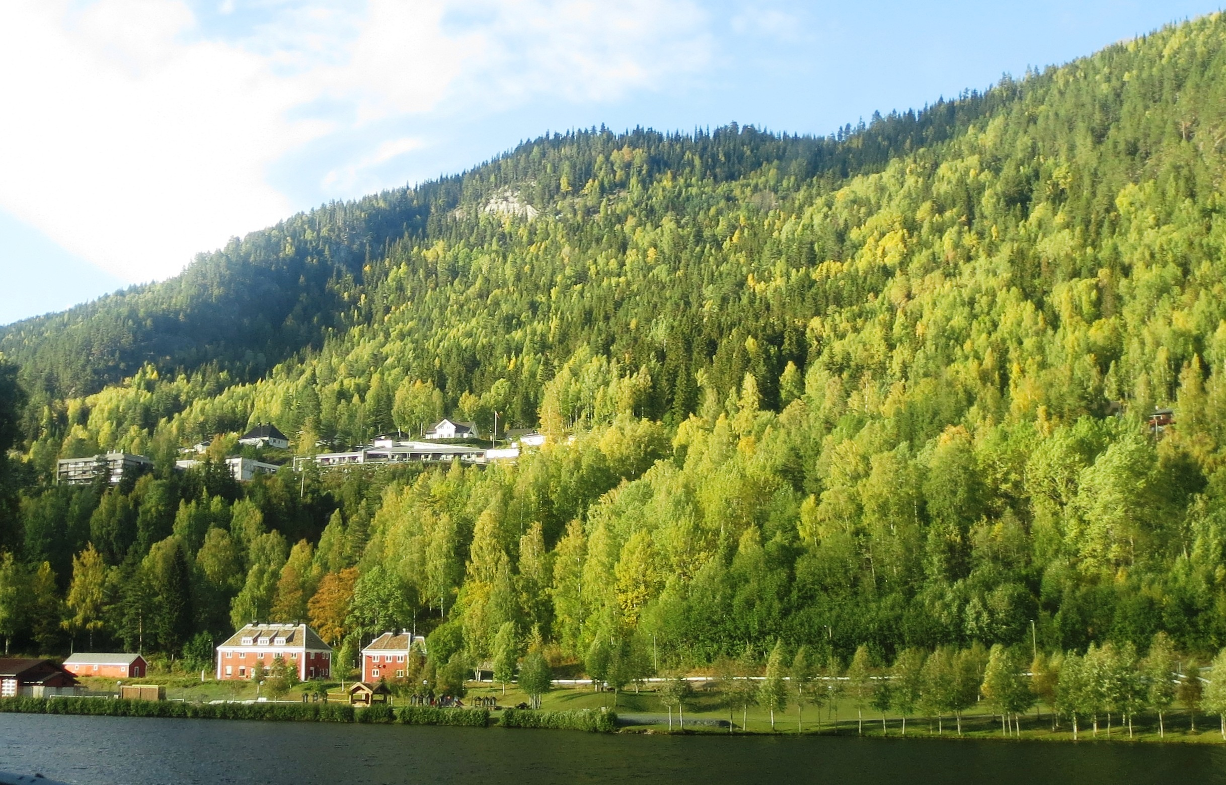 Rødberg station at the Numedalsbanen railway, in Buskerud county, Norway